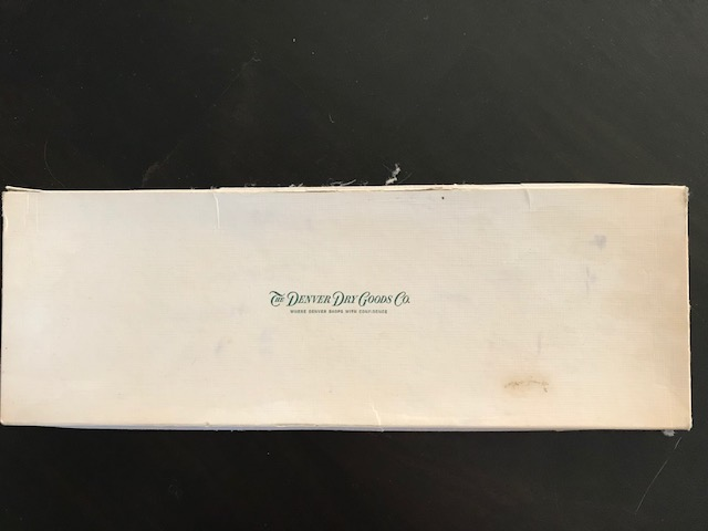 A glove box from the 1940s or '50s.